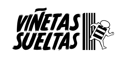 Viñetas Sueltas logo